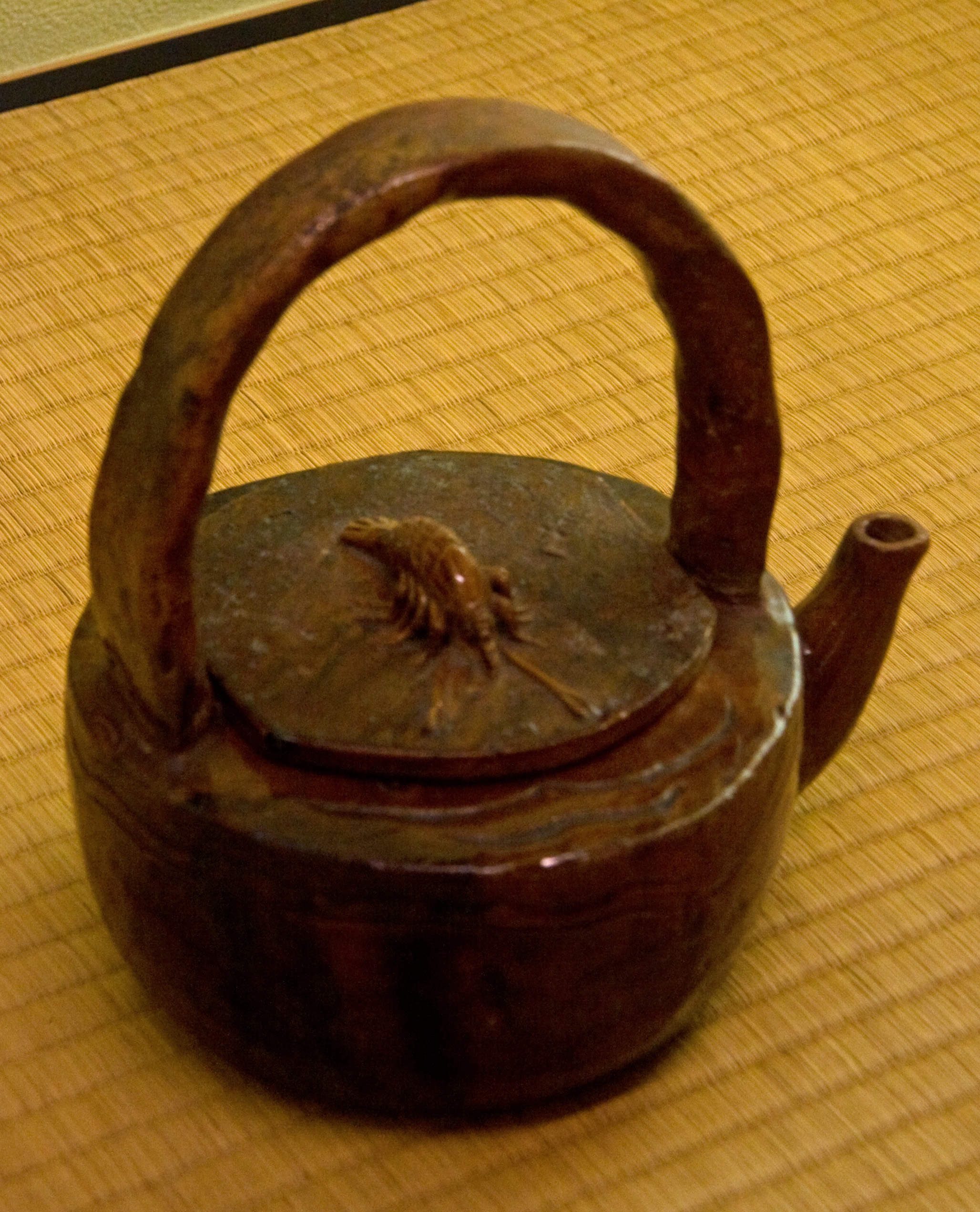 Ohi Chozaemon teapot